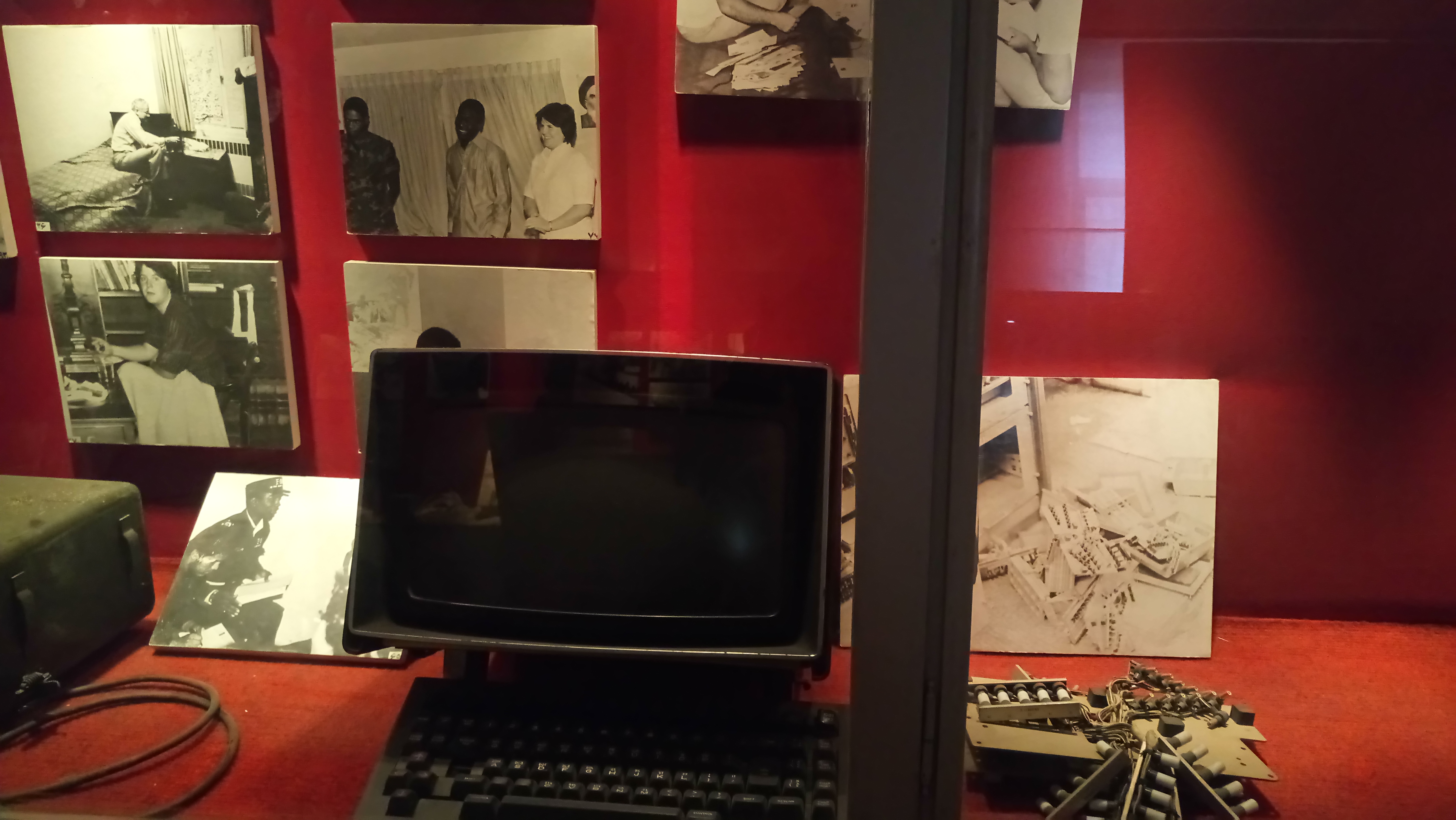 Iran hostage crisis memmorial